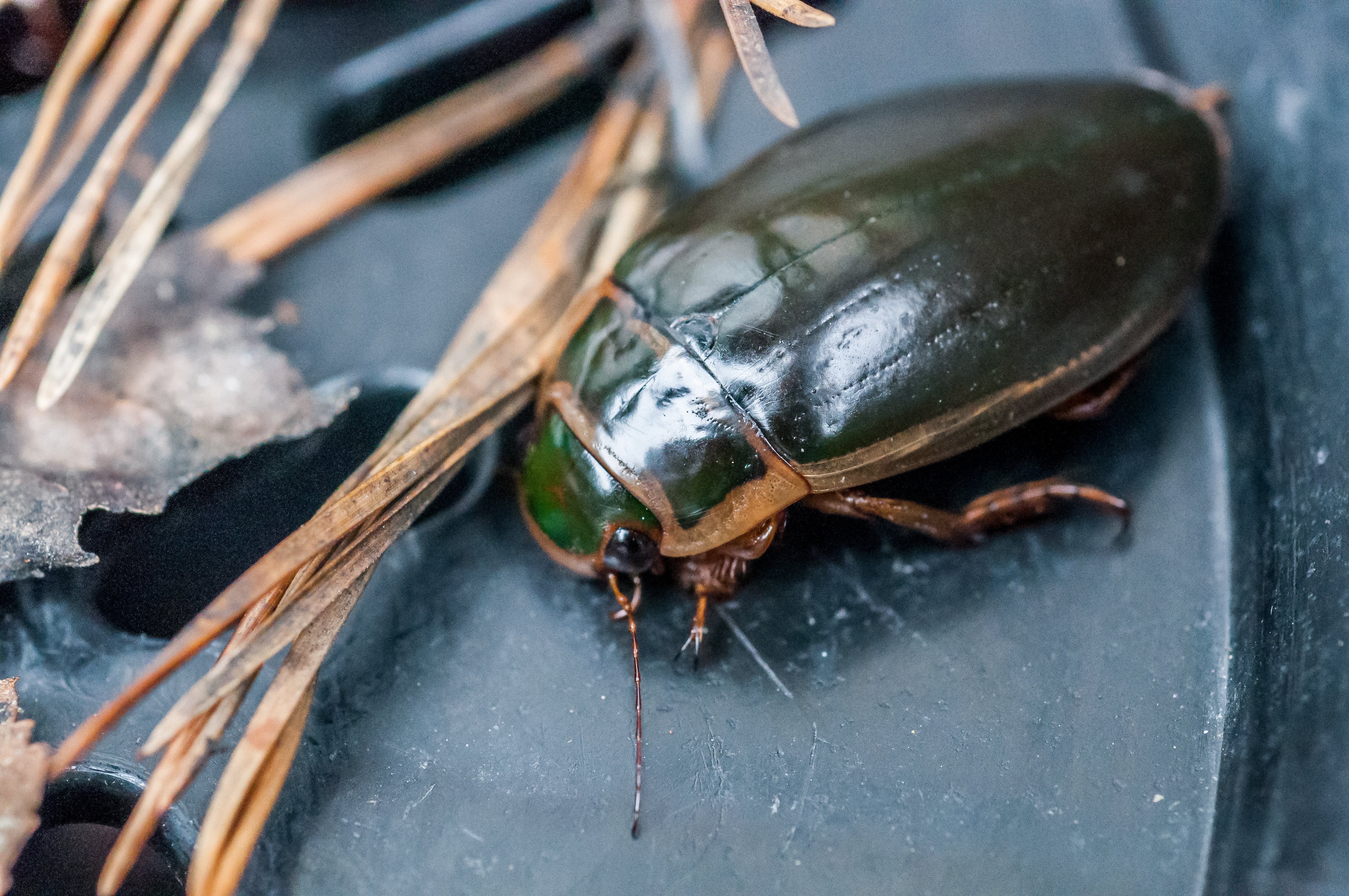 Dytiscus marginalis shooted from finland 19th of May 2017